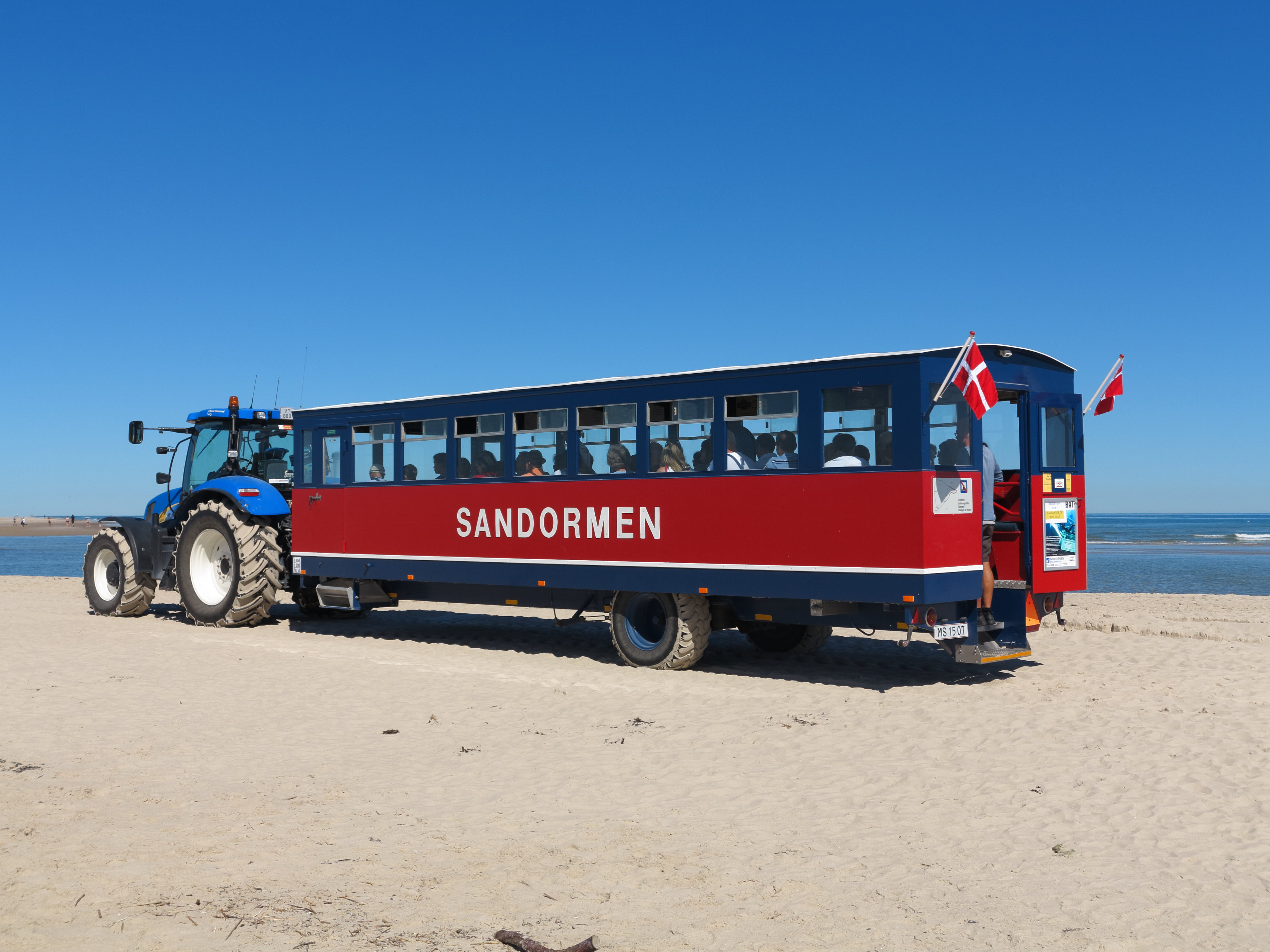 The Sandormen (Danish for sandworm) carries tourists from Grenen parking lot to the northernmost point of Denmark.